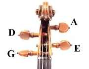 Which string goes to which peg...